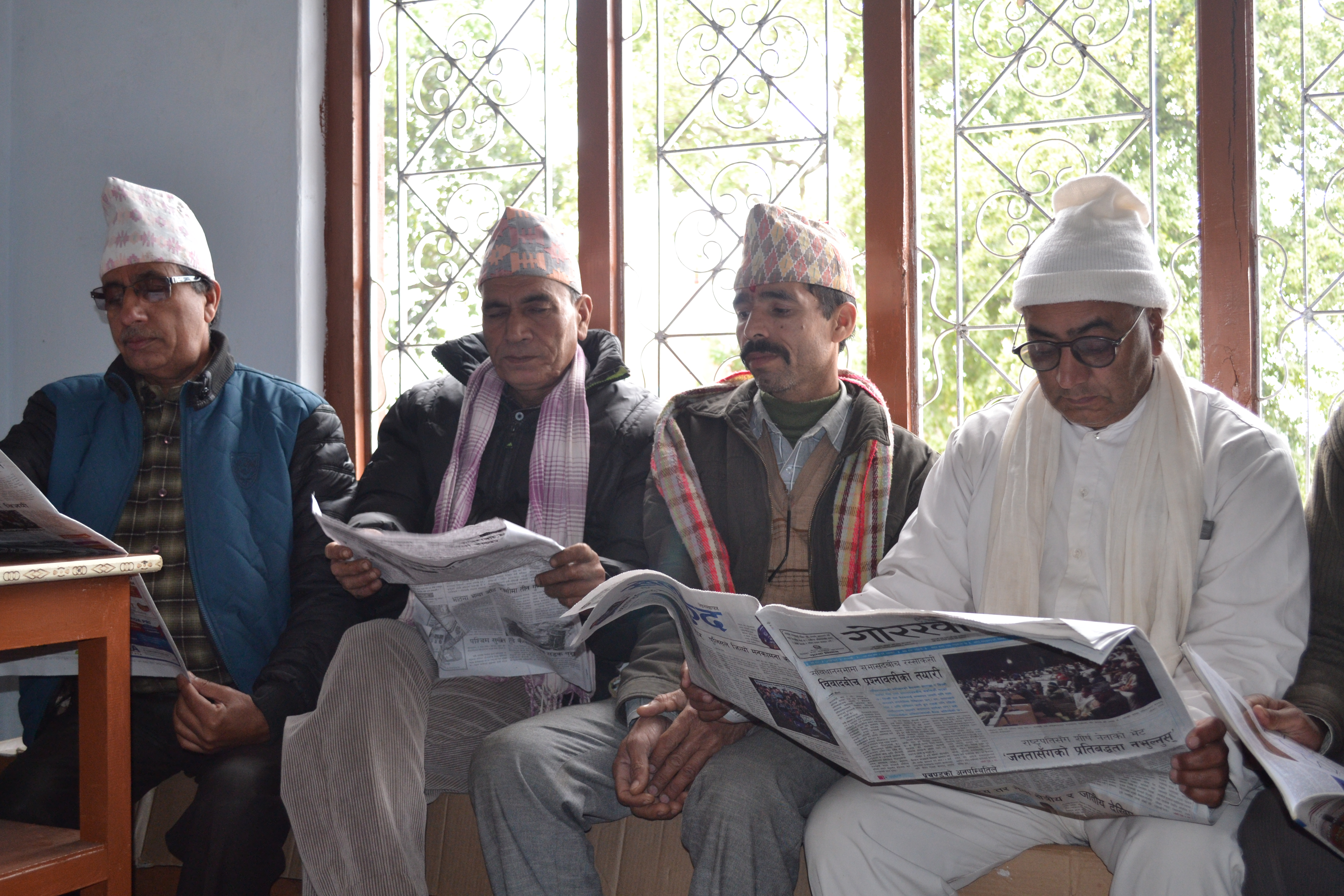 पत्रपत्रिका पढ्दै निर्मल भण्डारी